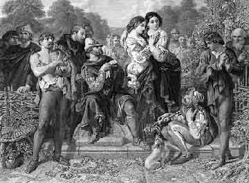 Daniel Maclise, Malvolio and the Countess (1840)